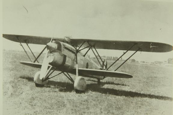 Fiat CR.32 Chirri